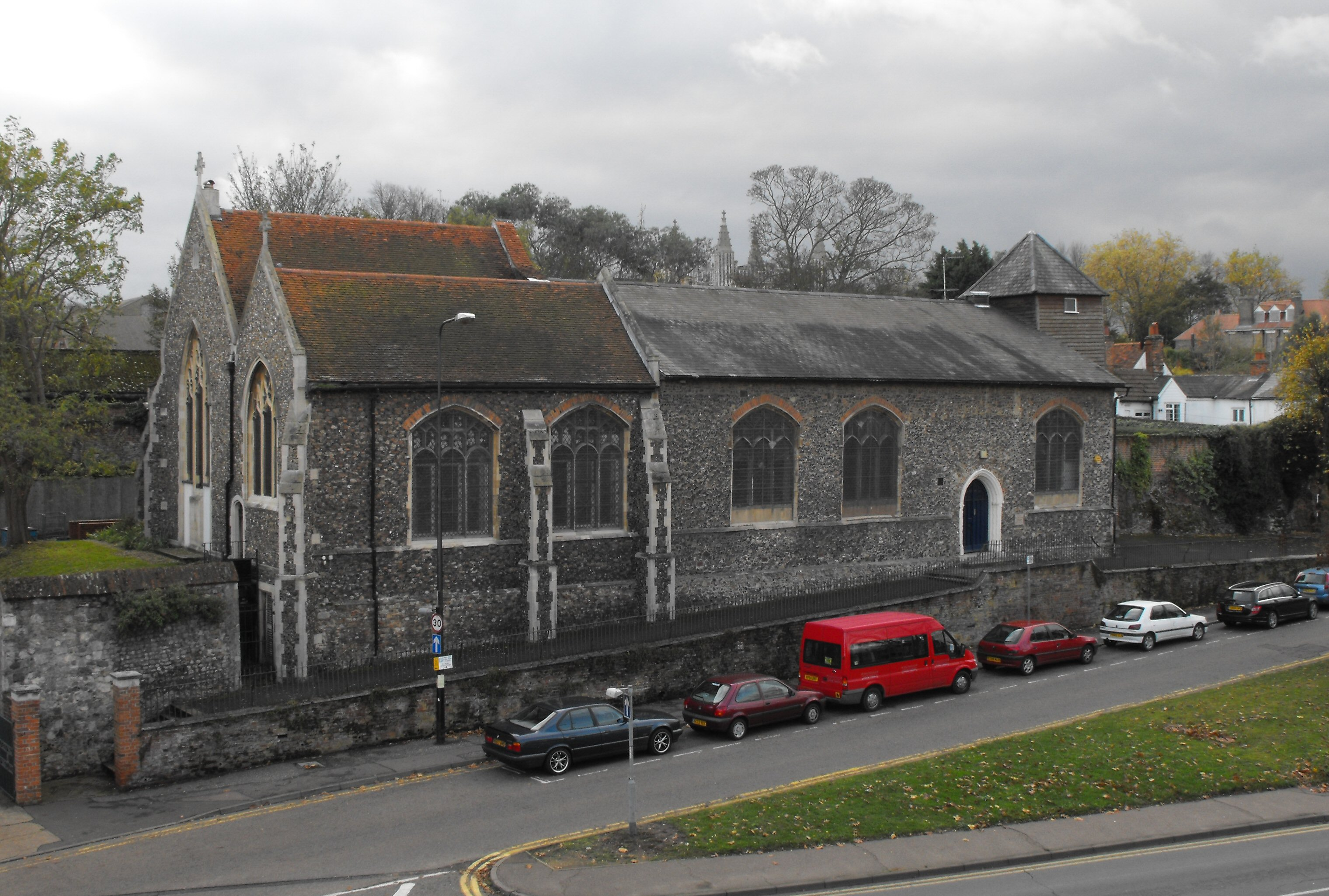 St Giles' Church, Colchester. In 2009 a Masonic centre